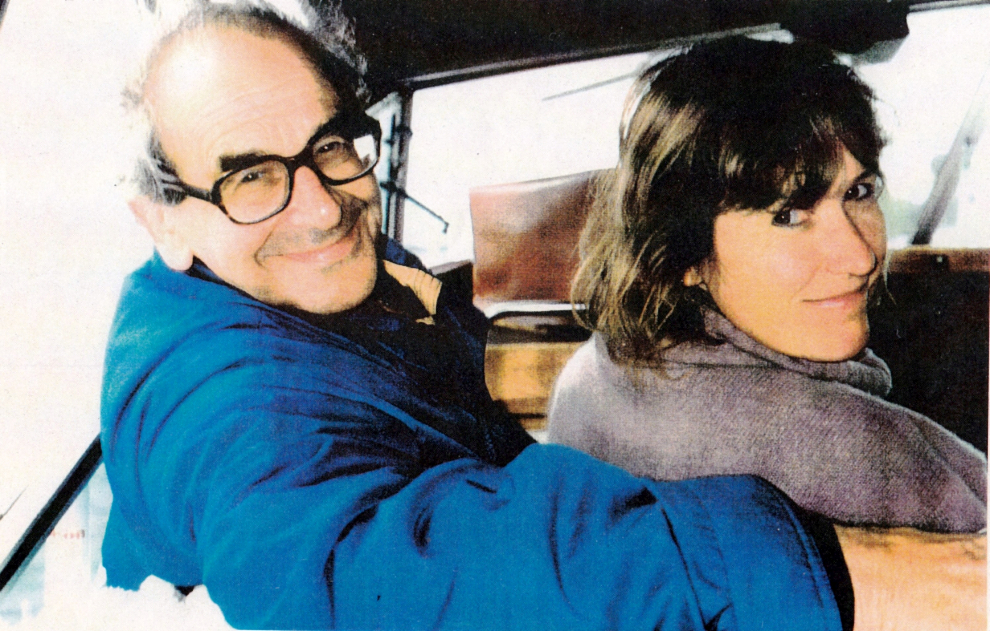 Prof. Dr. Elke Liebs and her husband Prof. Dr. Efim Etkind during a car-excursion